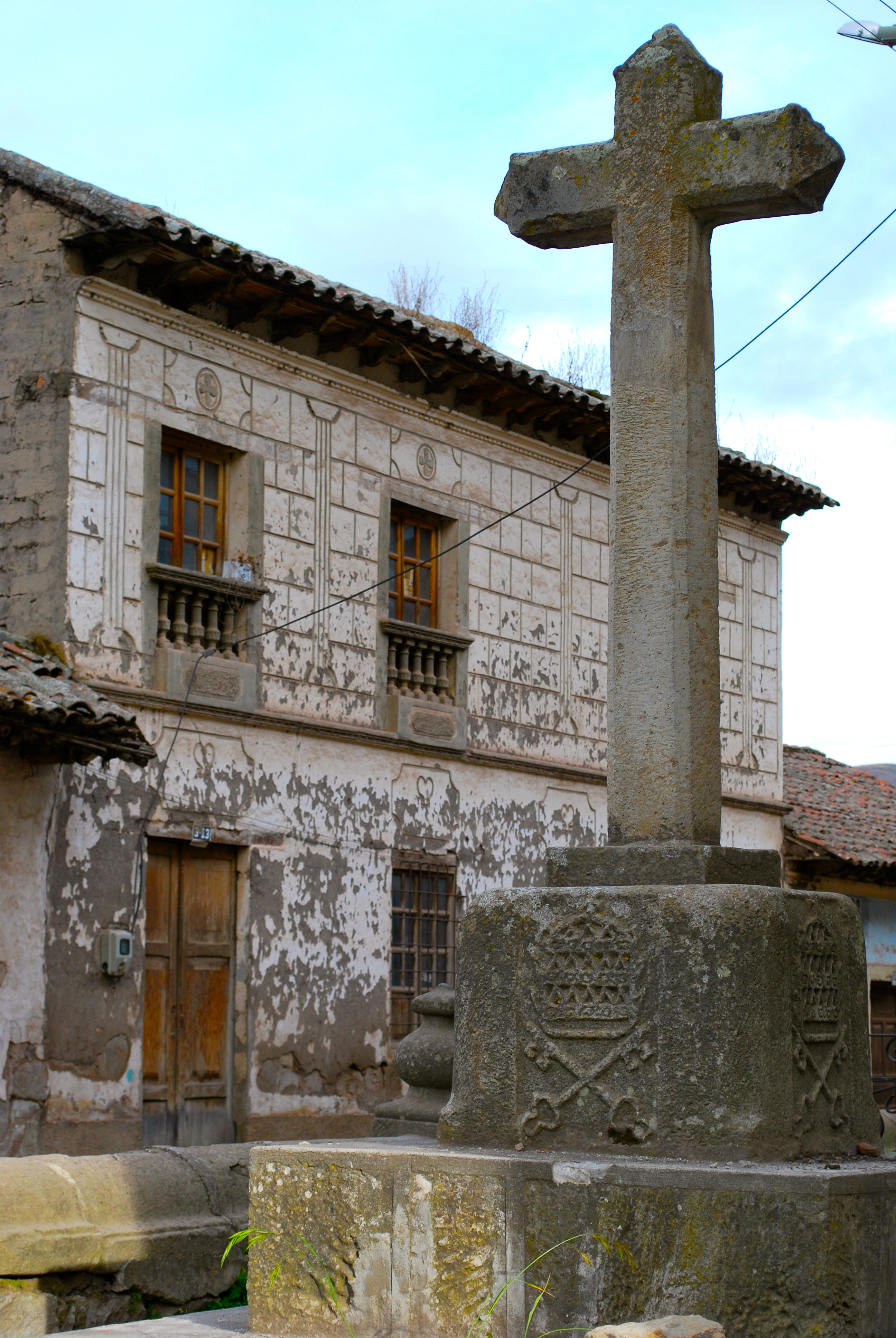 Old RIobamba